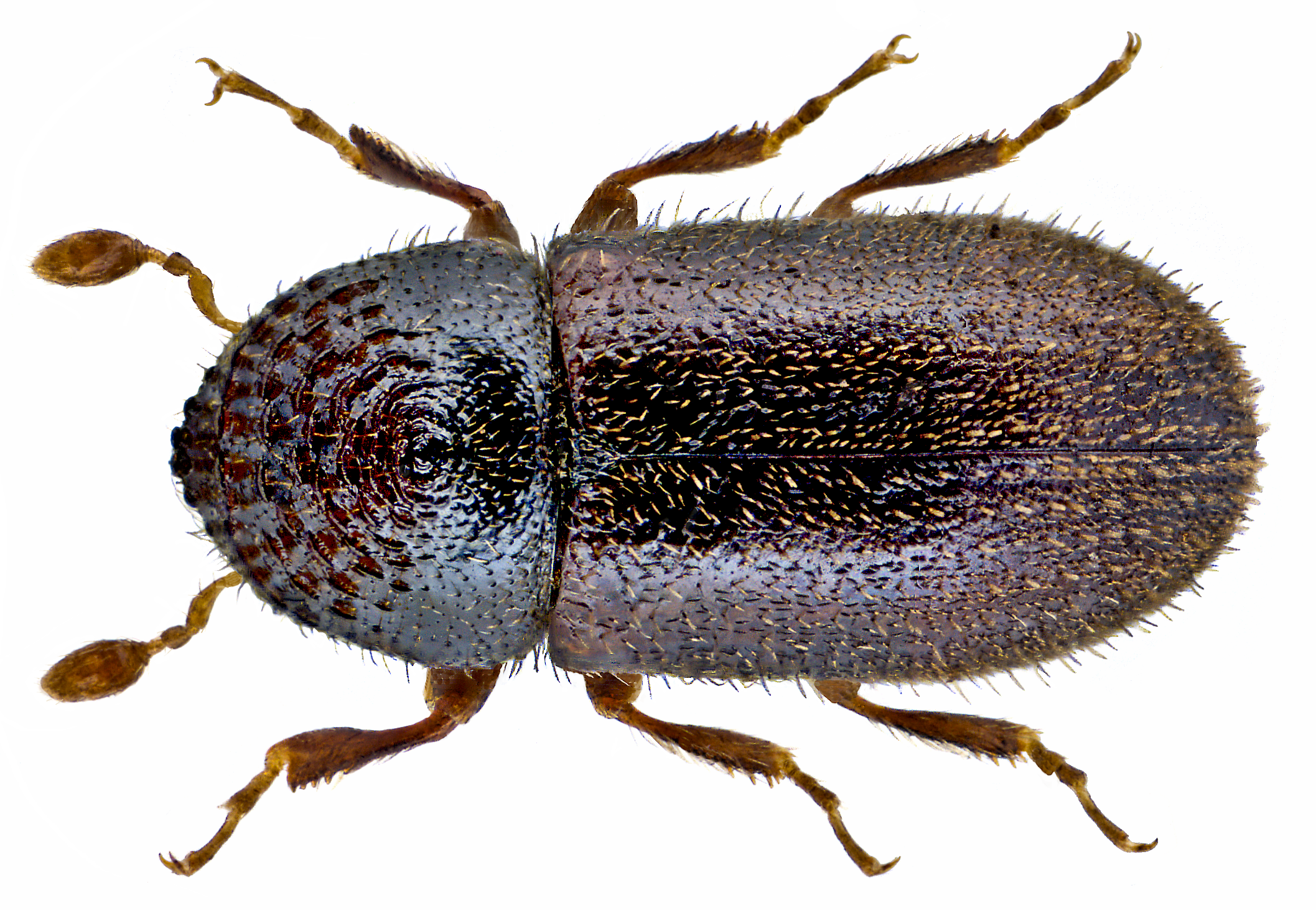 Family: Scolytidae Size: 1,8 mm Distribution: Europe, North Africa Ecology: lives mainly on Populus spec. and Salix fragilis Location: England, Ashe, Hartleburg leg.det. P.Harwood, IX.1920 Coll. Oxford University Museum of Natural History Photo: U.Schmidt, 2014